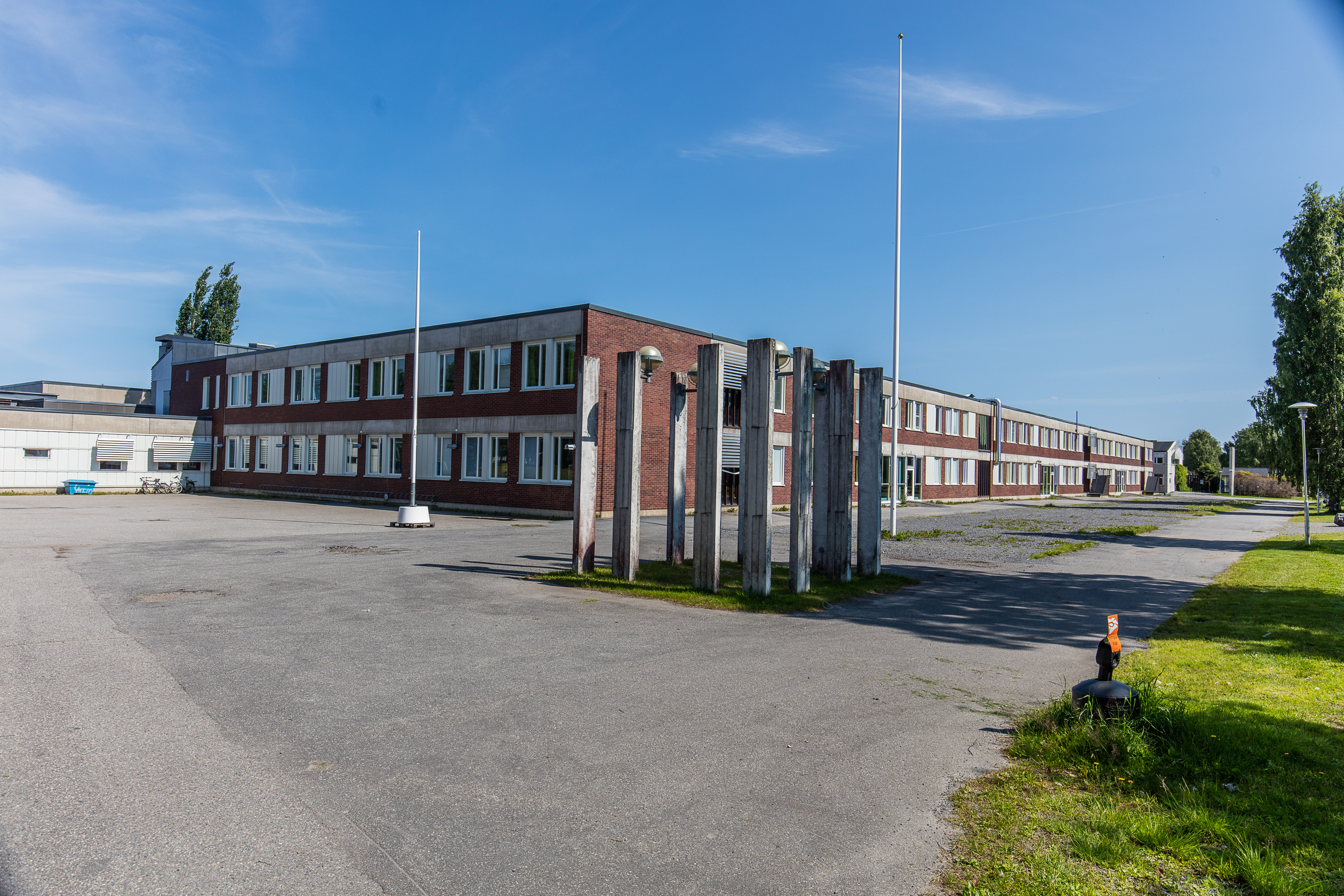 Dragonskolan is the biggest gymnasium (upper secondary school) in Umeå.